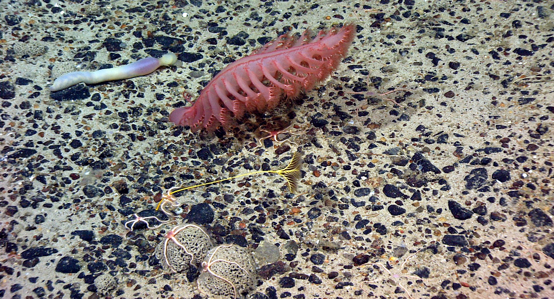 Mountains in the Sea Expedition. Phenomenal line-up of organisms representing the great diversity on Balanus Seamount - a strange spoon worm, an elegant sea pen, a stalked crinoid, and two xenophyophores (large one-celled organisms) with brittle stars. New England Seamount Chain.